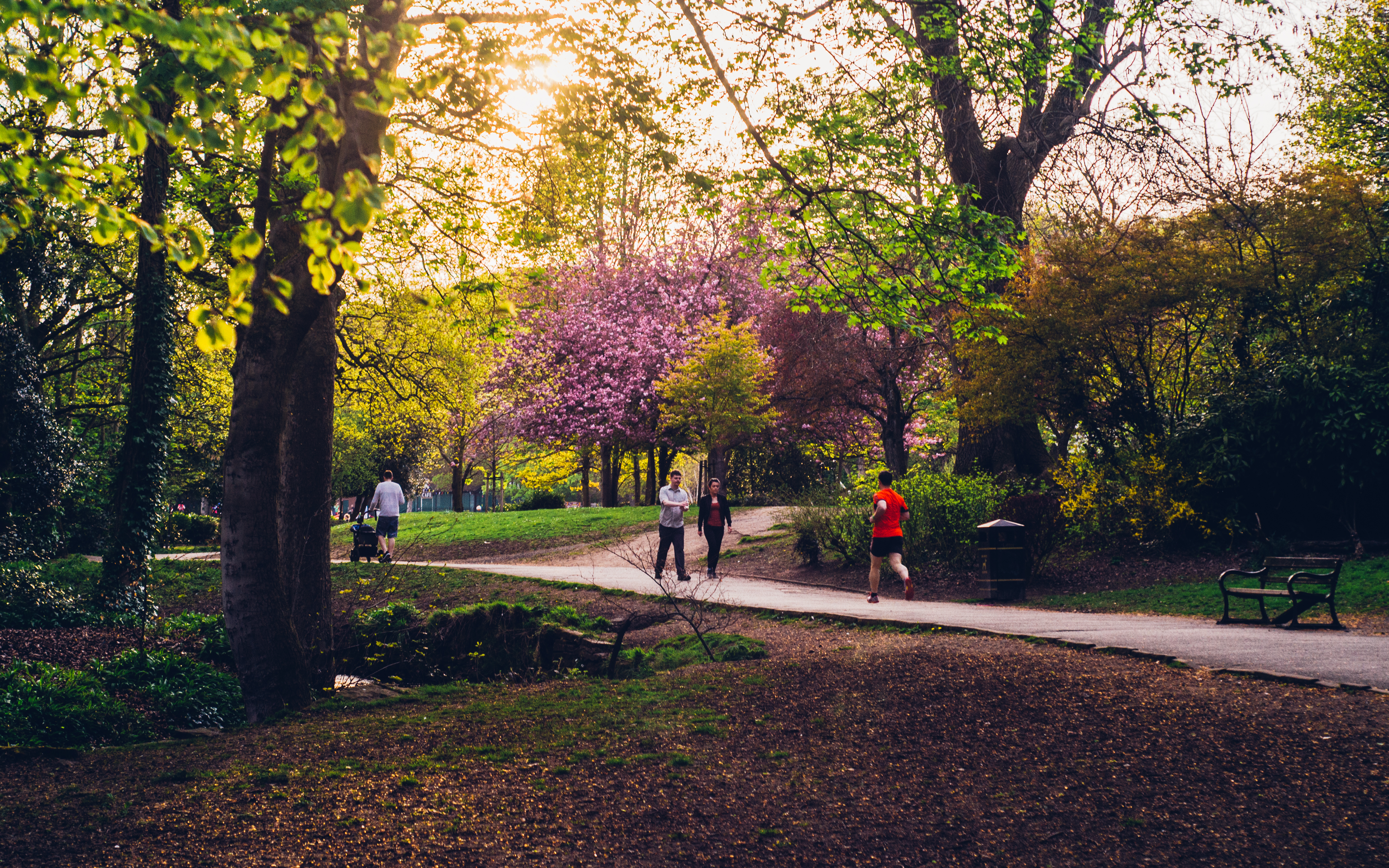 One of the many pathways in the park.